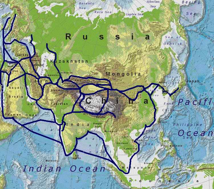 Personally drew in routes myself using MS Paint and references: and This image does not include silk routes to Karakorum. Free On-line Map: ... ancient Silk Road routes